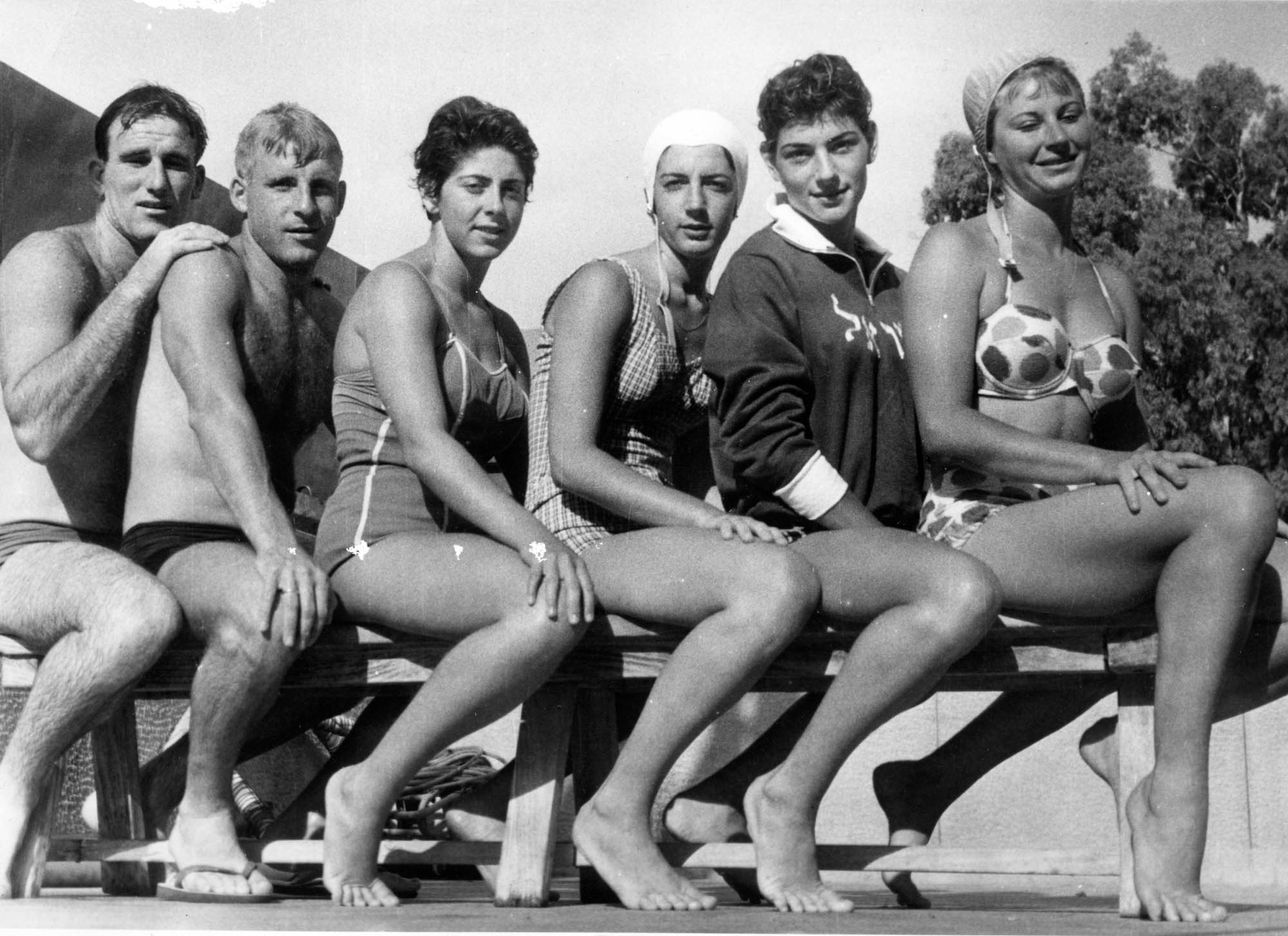 Training Camp for Team Swimmers, March 1959. From left to right: Uzi Beck, Gabriel Nest, Dorit Scherzer, Tamar Zelig, Noga Harari and Shoshana Rivner